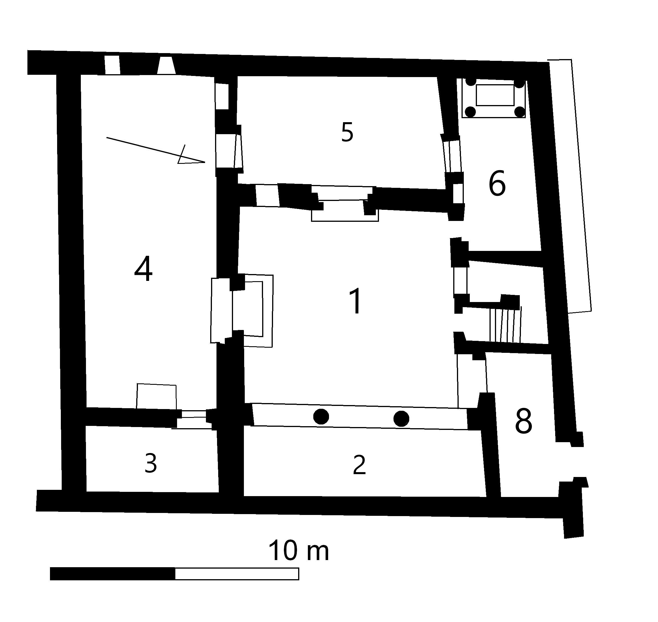 plan of the house with church of Dura Europos